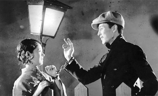 Kinuyo Tanaka and Minoru Takada in Hogaraka ni nake (朗かに泣け) directed by Tsunejirō Sasaki